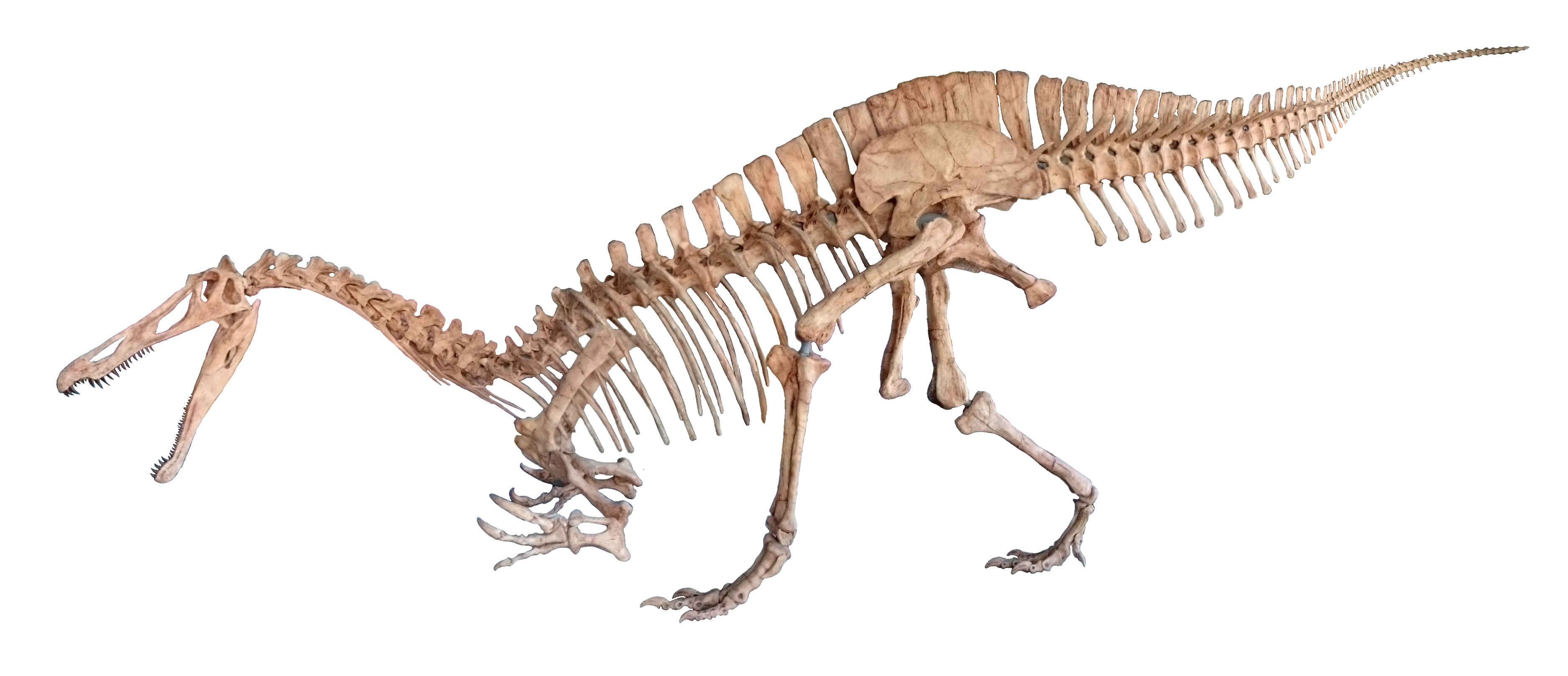 Mounted replica of the fossilized skeleton of a suchomimus